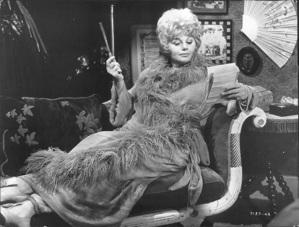 Publicity photo of American actress Shelley Winters promoting the 1971 feature film Whoever Slew Auntie Roo?.